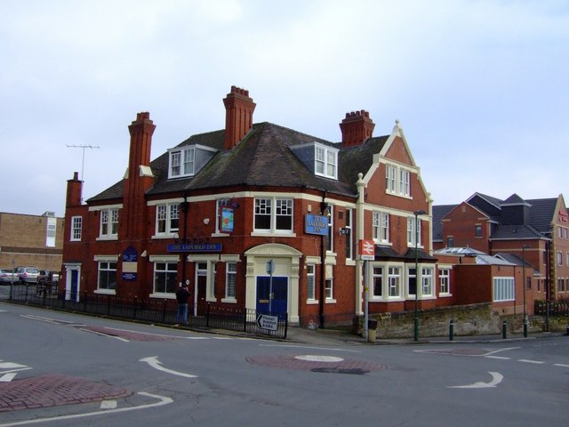 The Ladybird Inn, Aston Fields